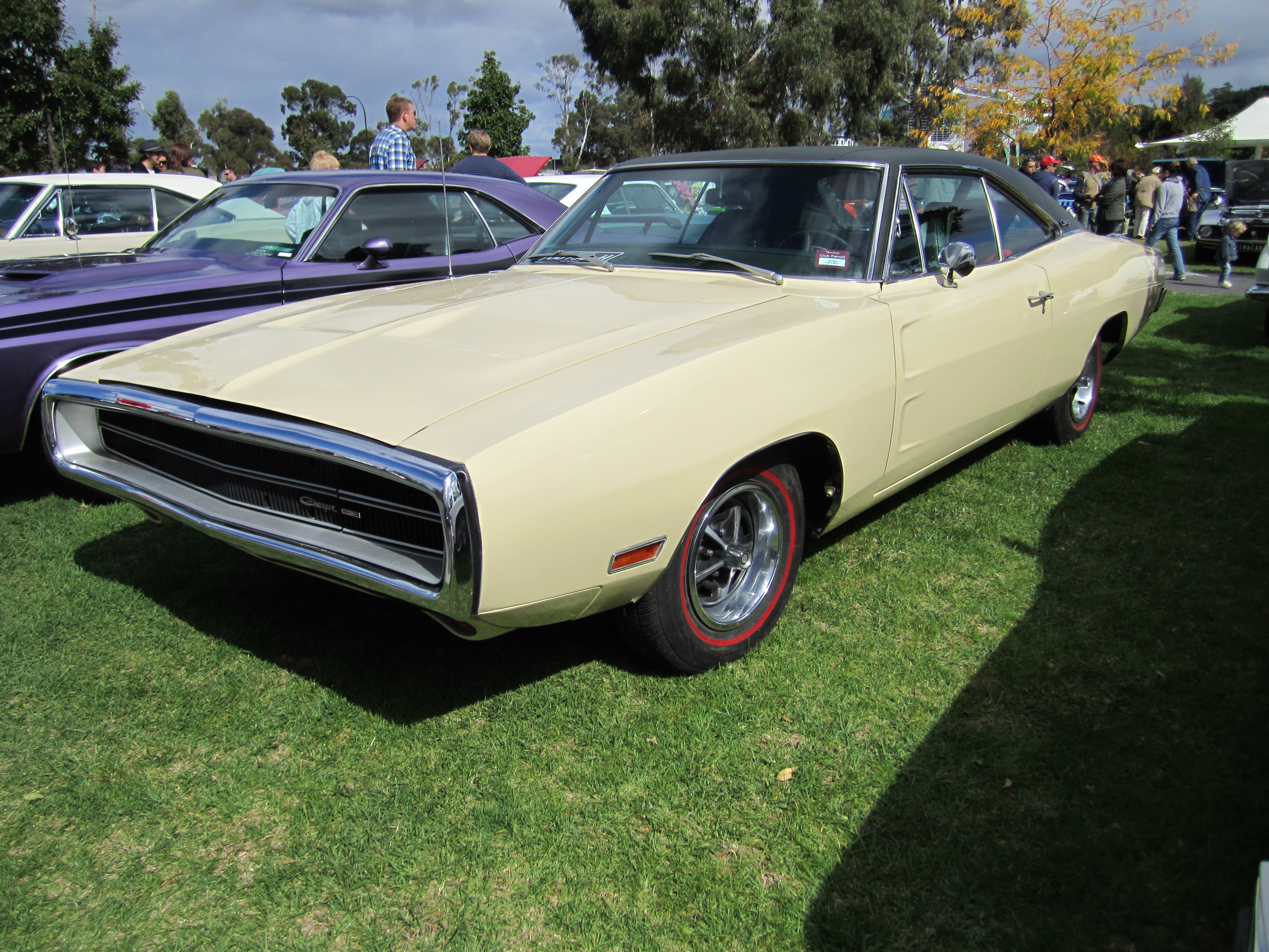 Beige. 1970; 1st year for 440 6 pack option. other engines; 225 6, 318, 383 and 426 Hemi